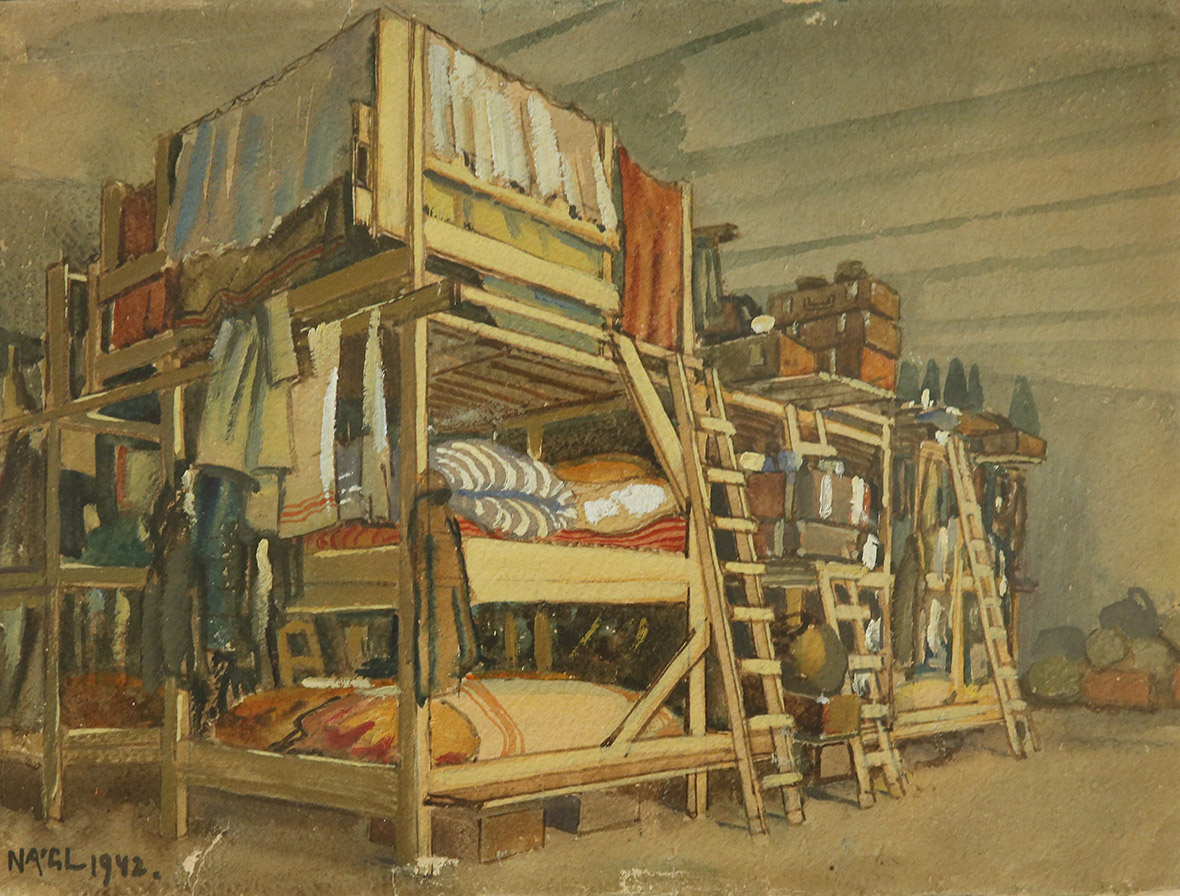 Painting by František Mořic Nágl.